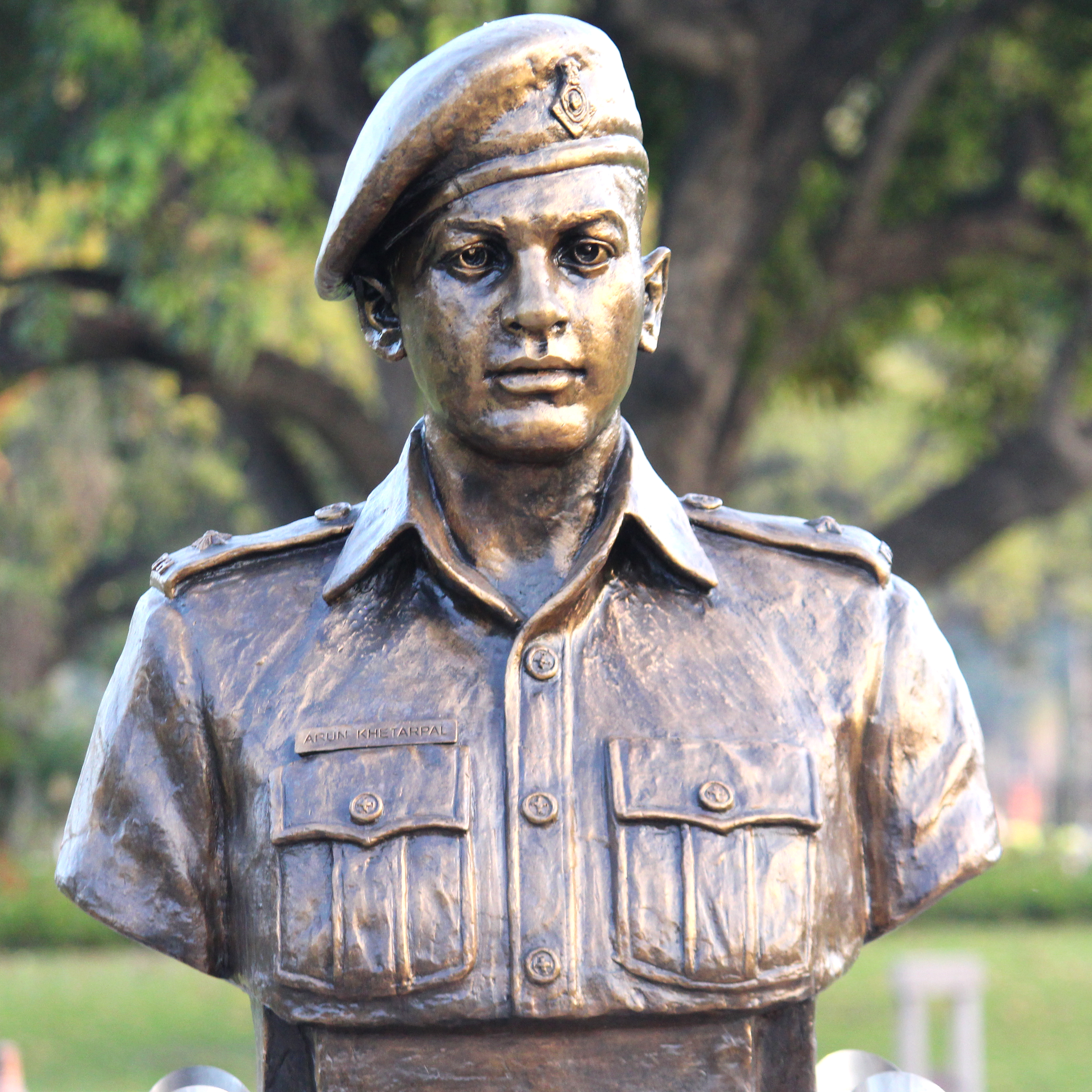 Second Lieutenant Arun Khetarpal's statue at Param Yodha Sthal (section for Param Vir Chakra recipients), National War Memorial, New Delhi.